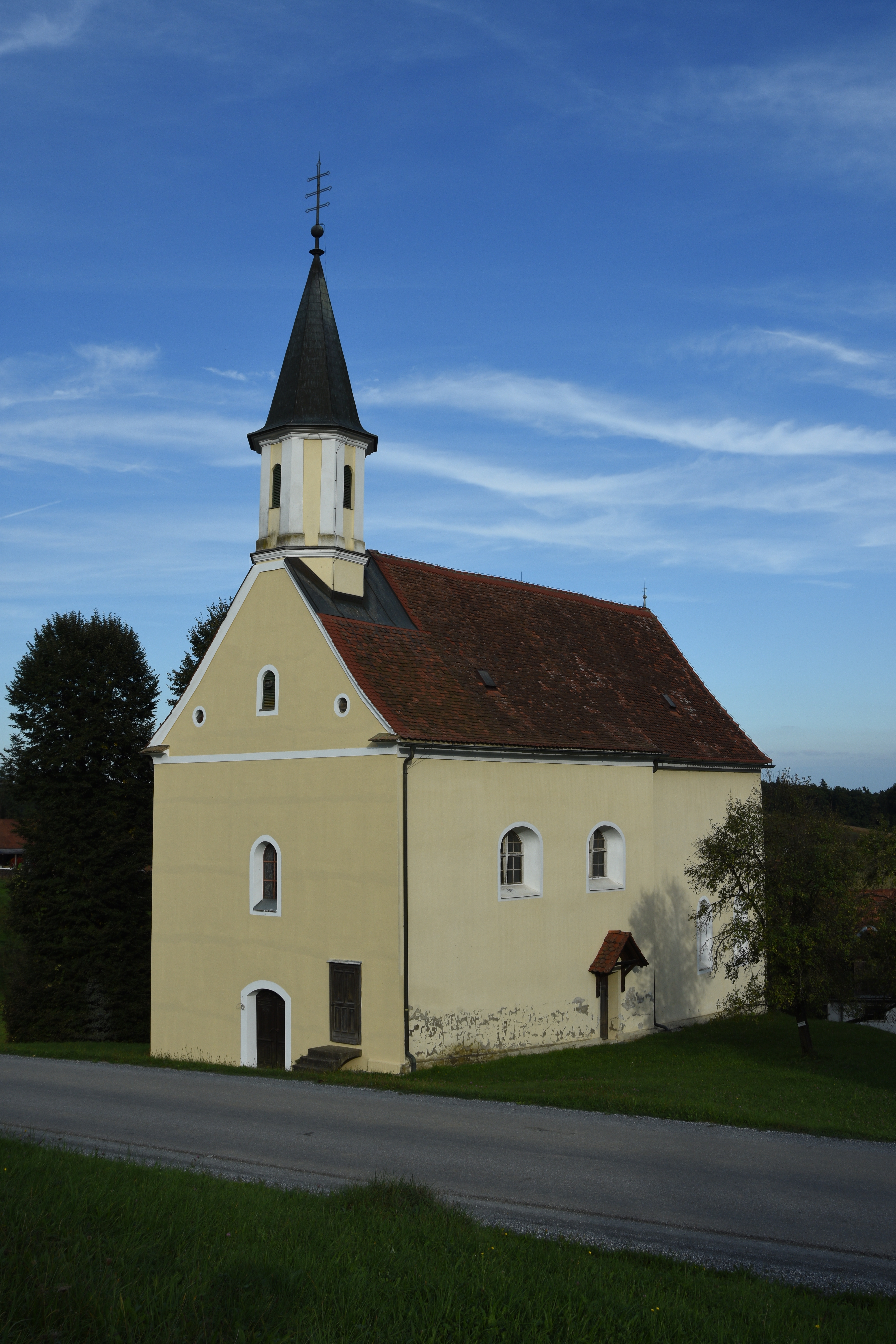 Church Pickelbach